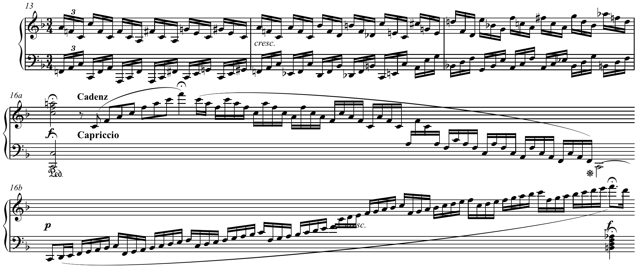 Mozart - 6 Variations on an aria from I Filosofi Immaginarii K. 398 (416e), first movement, cadenza written out, without meter.